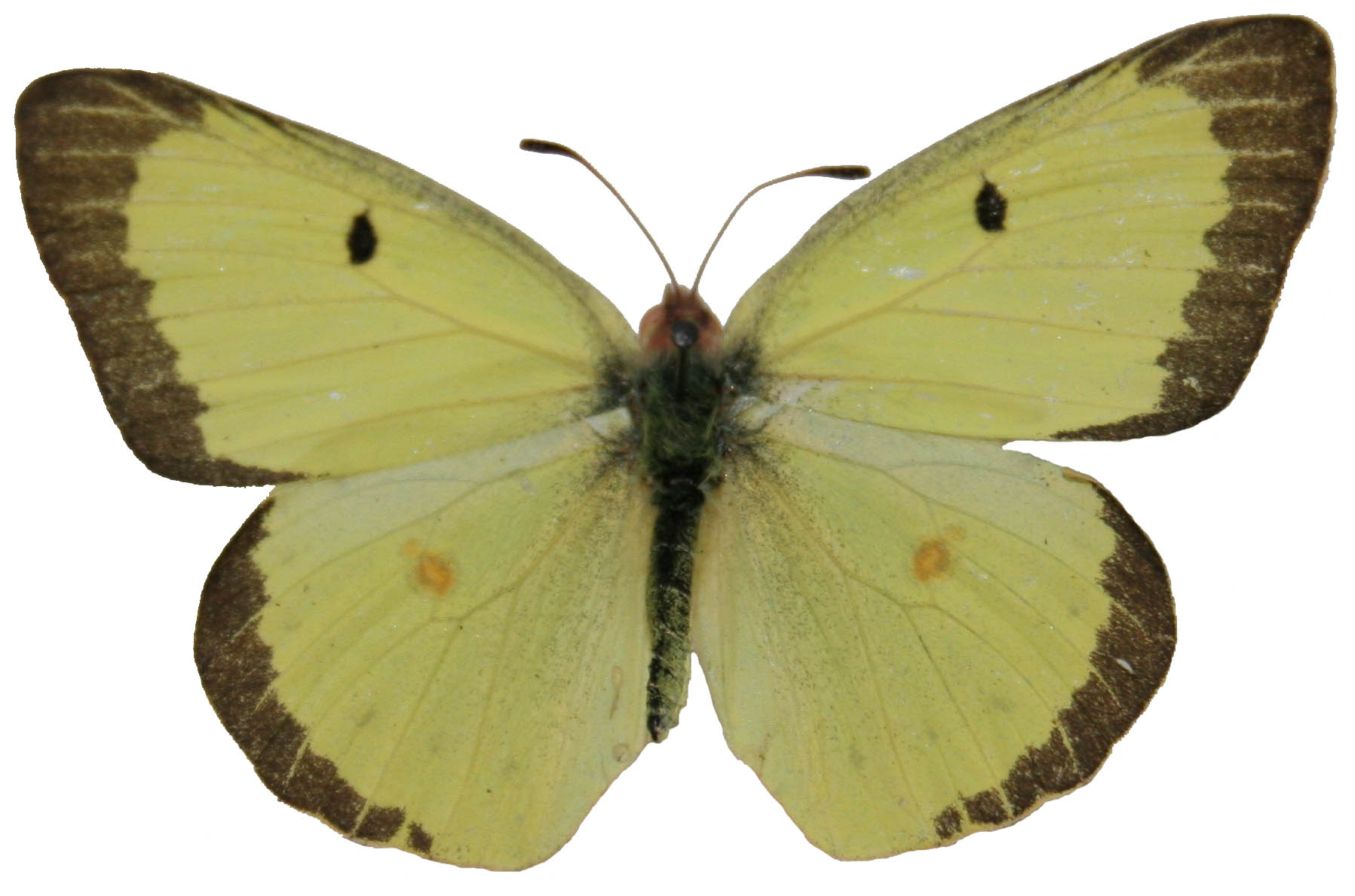 Male Clouded Sulphur, Colias philodice